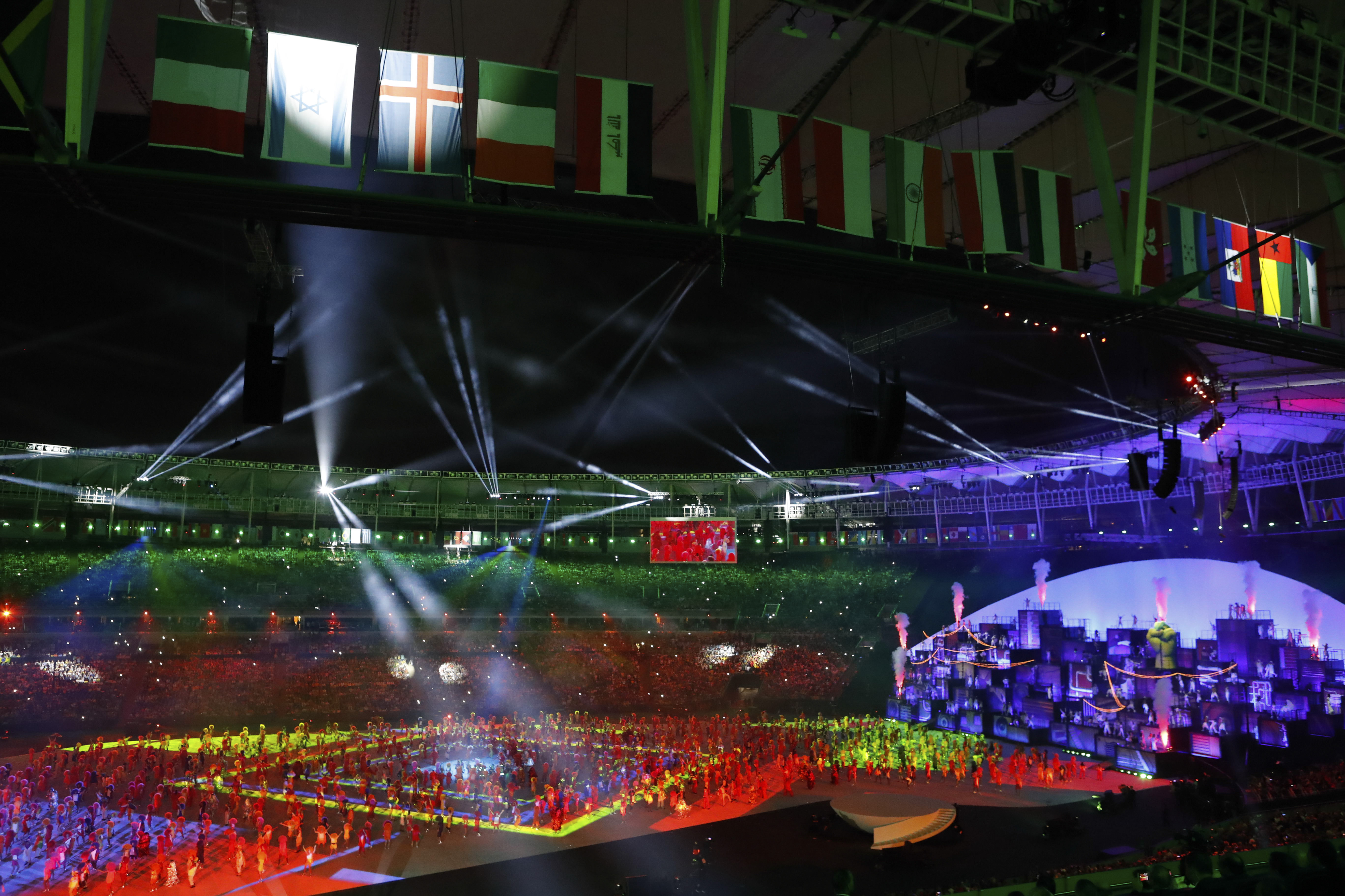 Rio de Janeiro - Opening ceremony of the 2016 Olympic Games in Maracanã Stadium (Fernando Frazão/Agency Brazil).